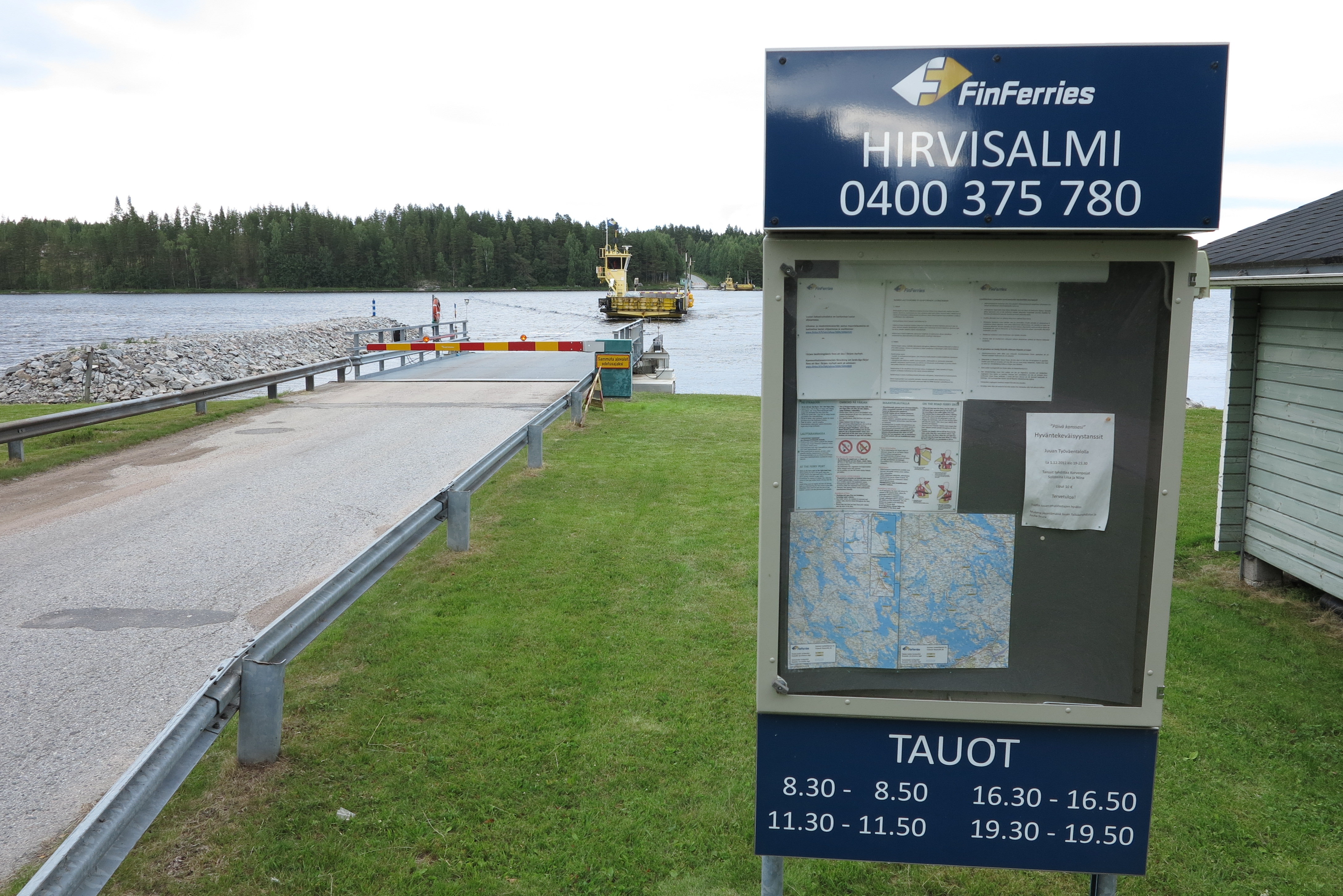 Hirvisalmi cable ferry to Paalasmaa island on the Paalasmaantie road (local road 15828) in Juuka, Finland.